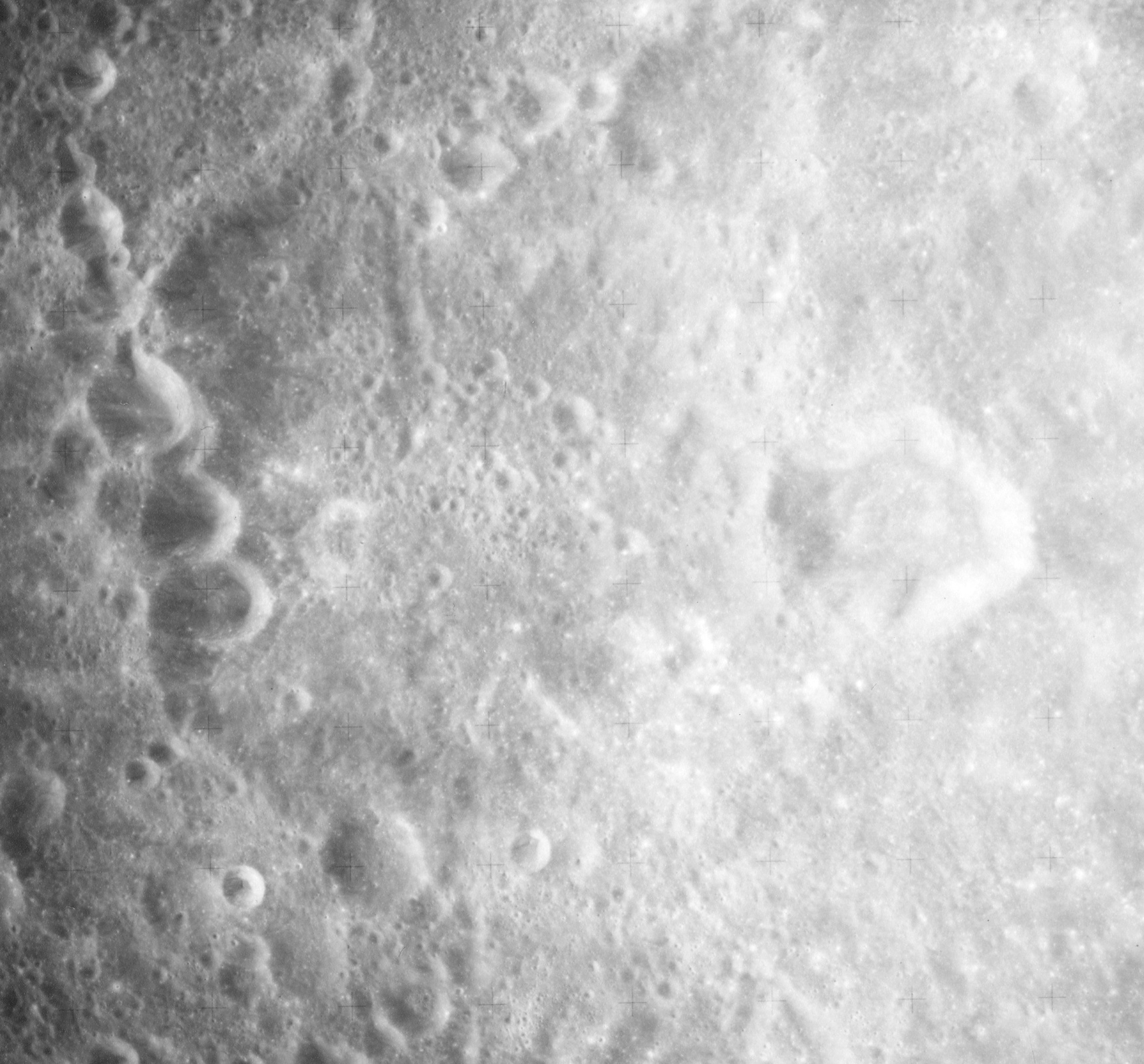 Love, on the far side of the moon.